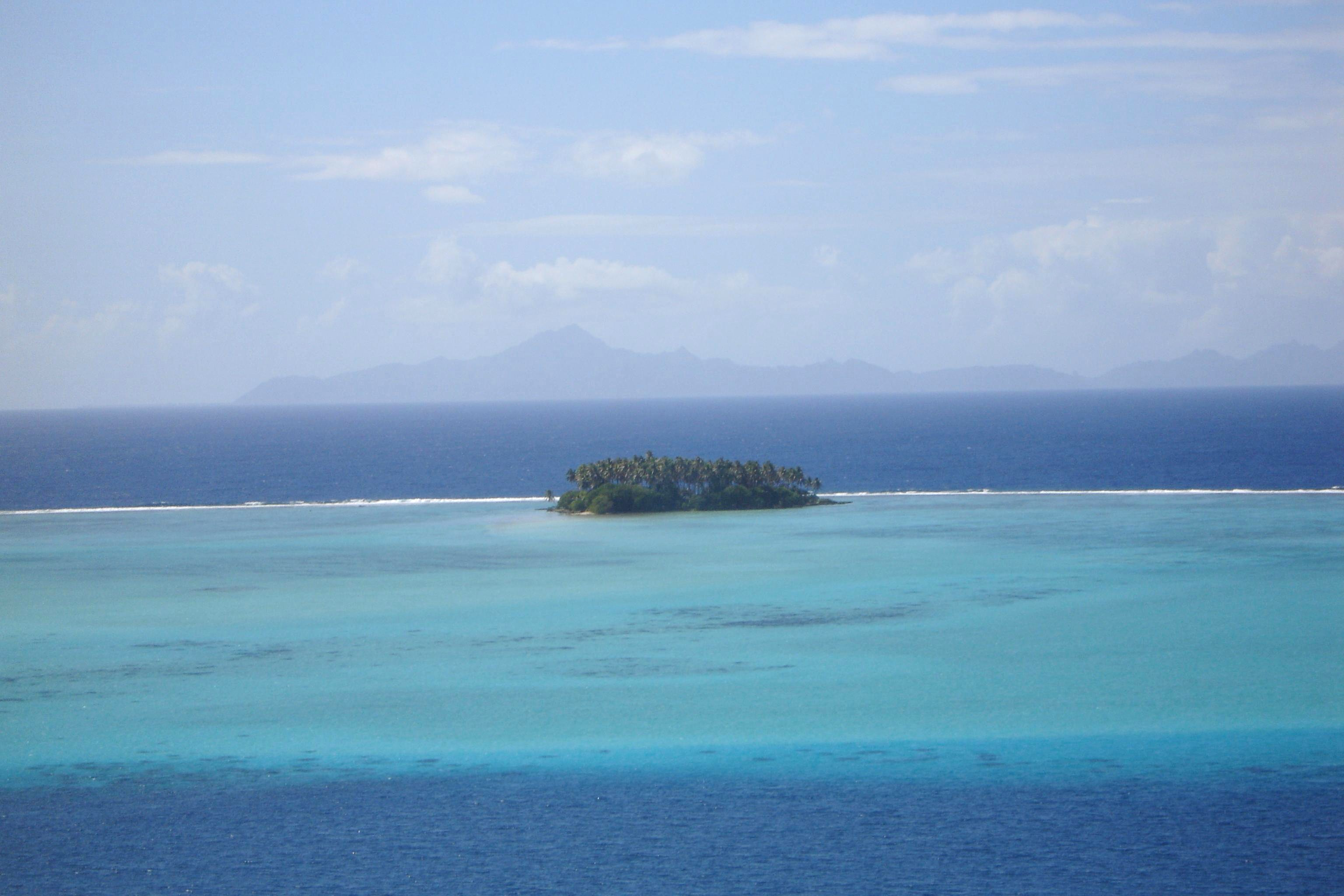 Motu in southern Raiatea (French Polynesia), Huahine in background